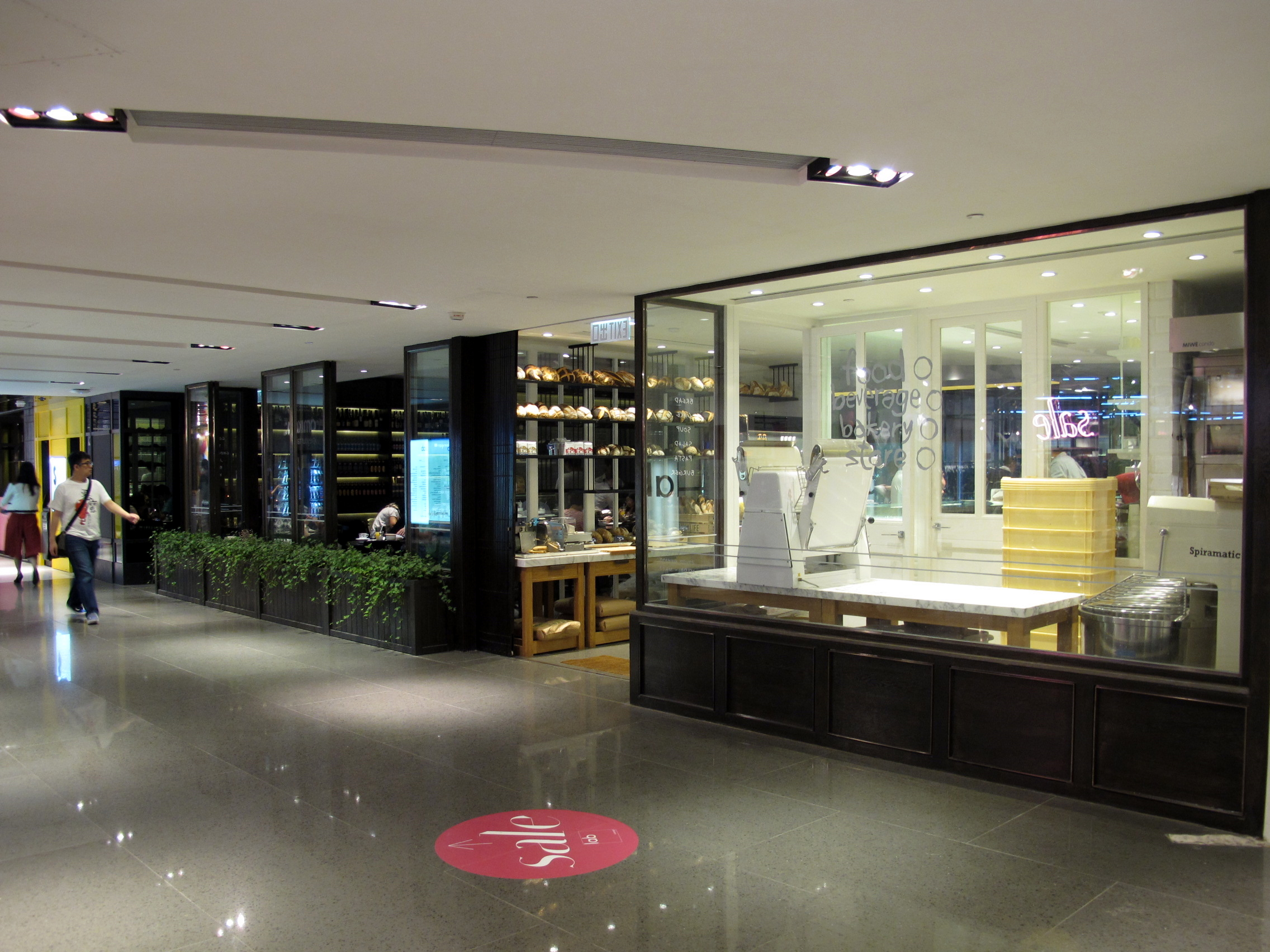 Simplylife in LAB Concept